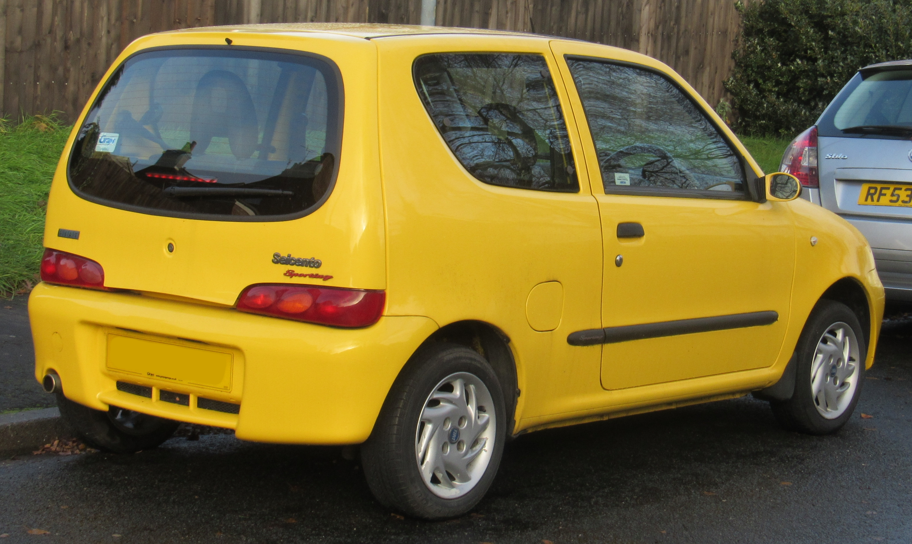 2002 Fiat Seicento Sporting 1.1 Rear Taken in Warwick